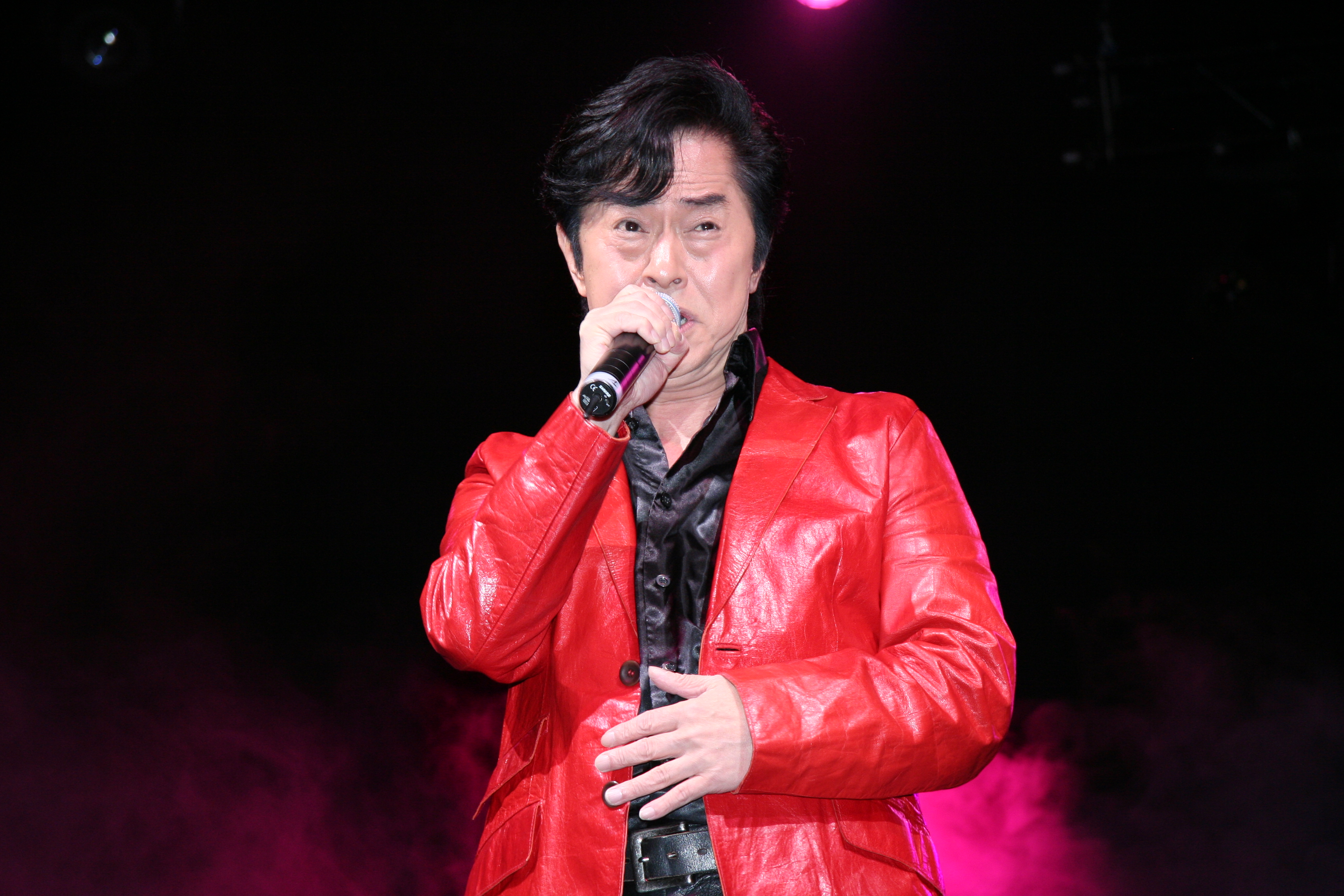 Ichiro Mizuki live at Japan Expo 2007 (Paris, France).